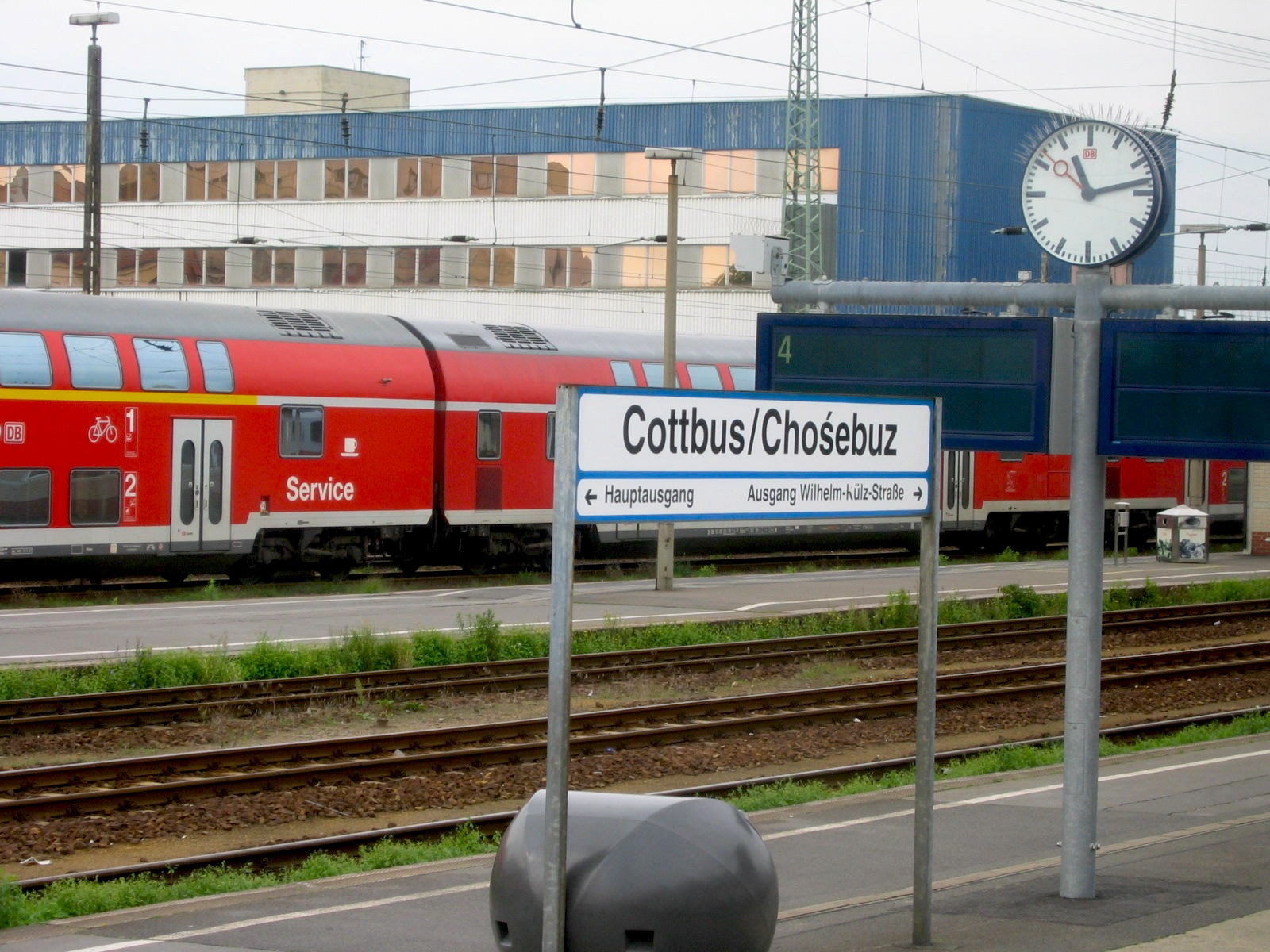 Railway station at Cottbus in Lower Lusatia with a bilingual station name.